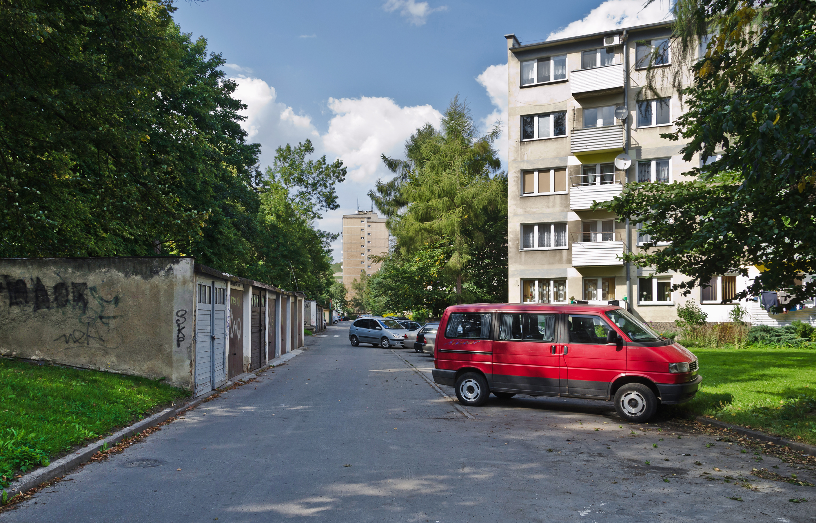 Malczewskiego Street in Kłodzko